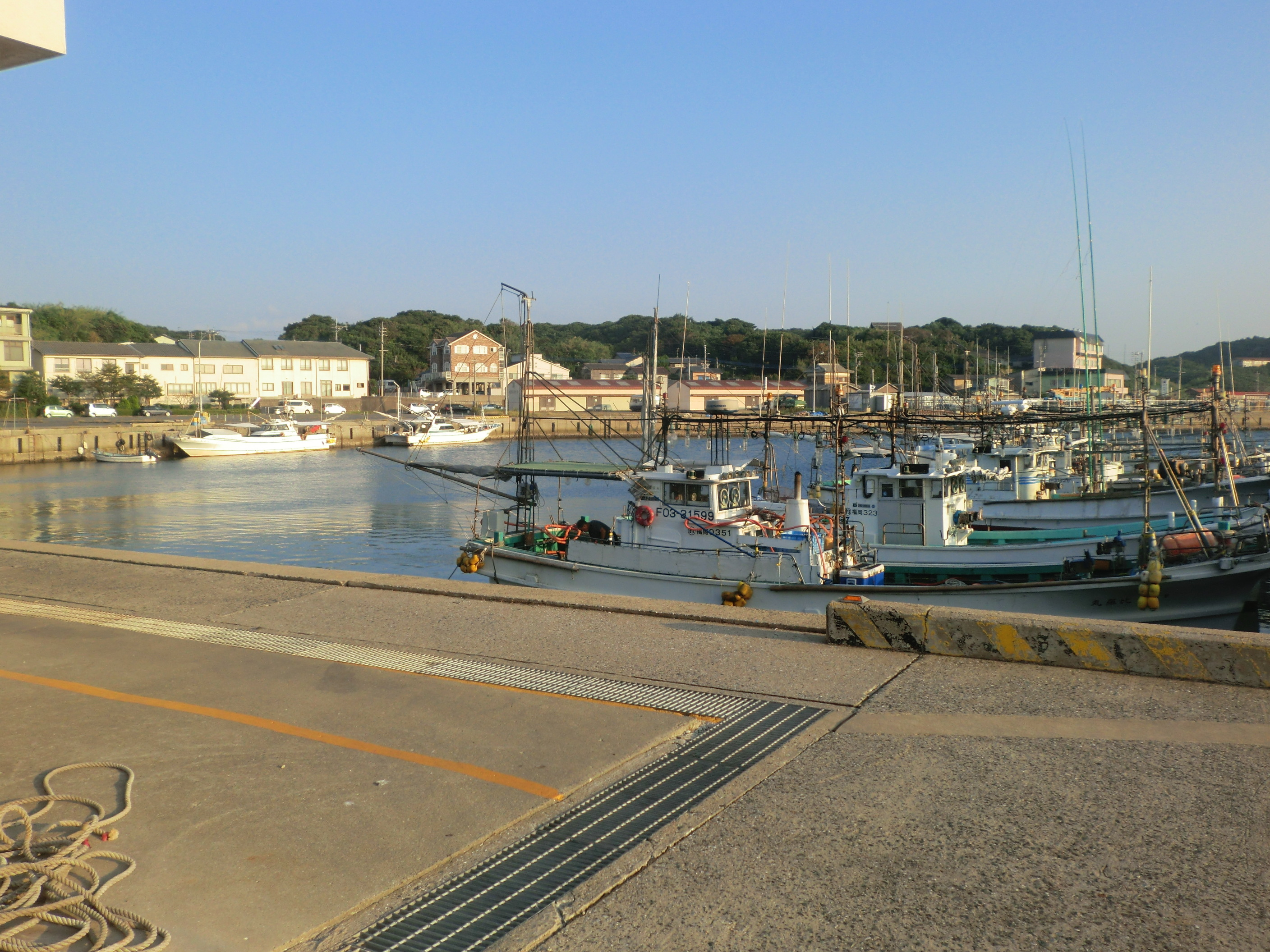 Iwaya port at Wakamatsu ward,Kitakyushu,Fukuoka,Japan.